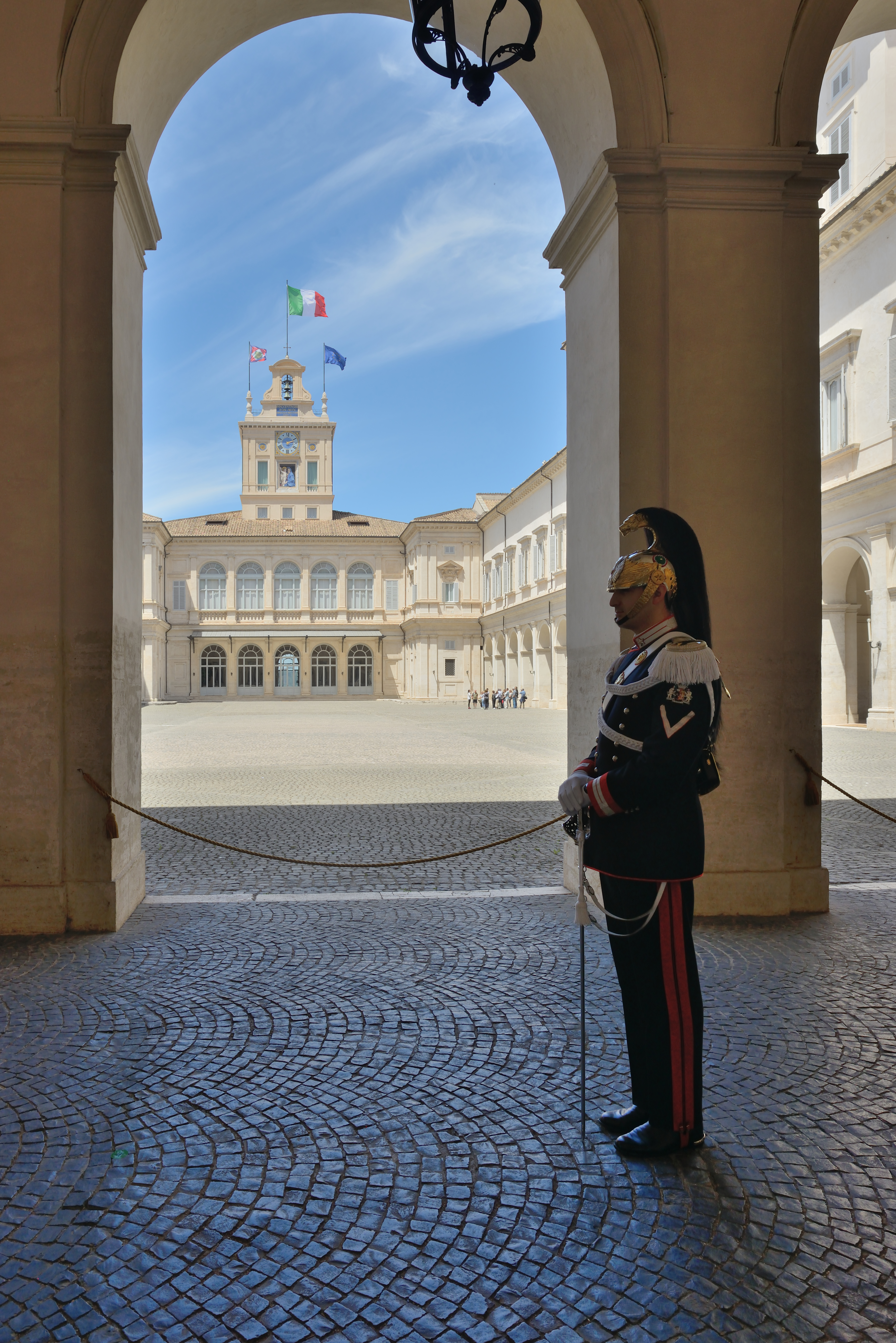 A Corazziere on guard in the court of the Quirinal Palace in Rome.